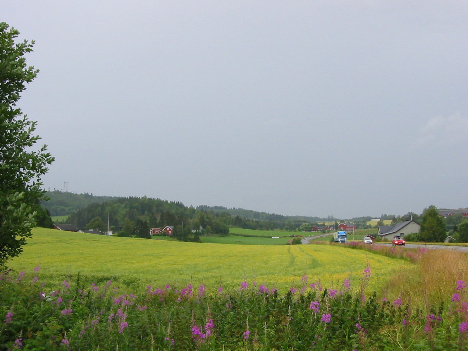 Grainfield near the E6 highway, Følling north of Steinkjer, Steinkjer municipality, Norway. August 1 2006.